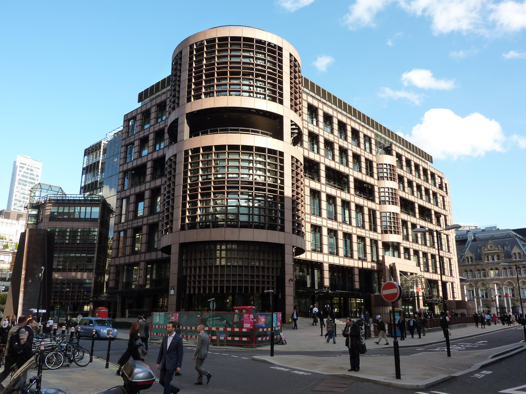 UBS AG Headquarters in London, Liverpool Street 100